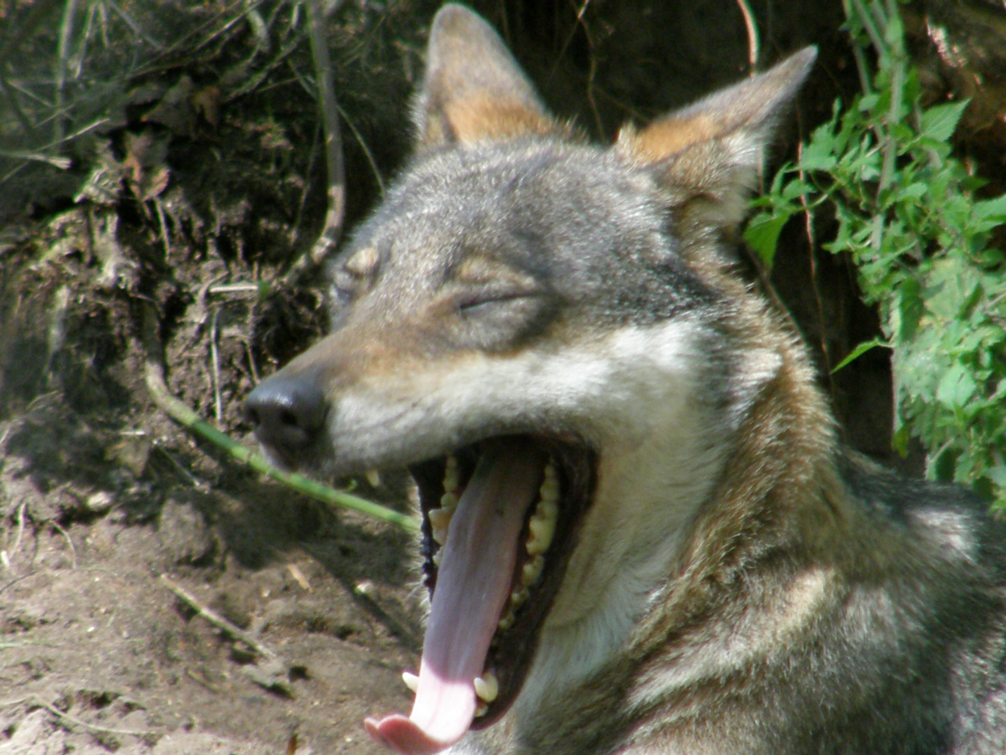 Wolf, Wildpark Eekholt, Germany